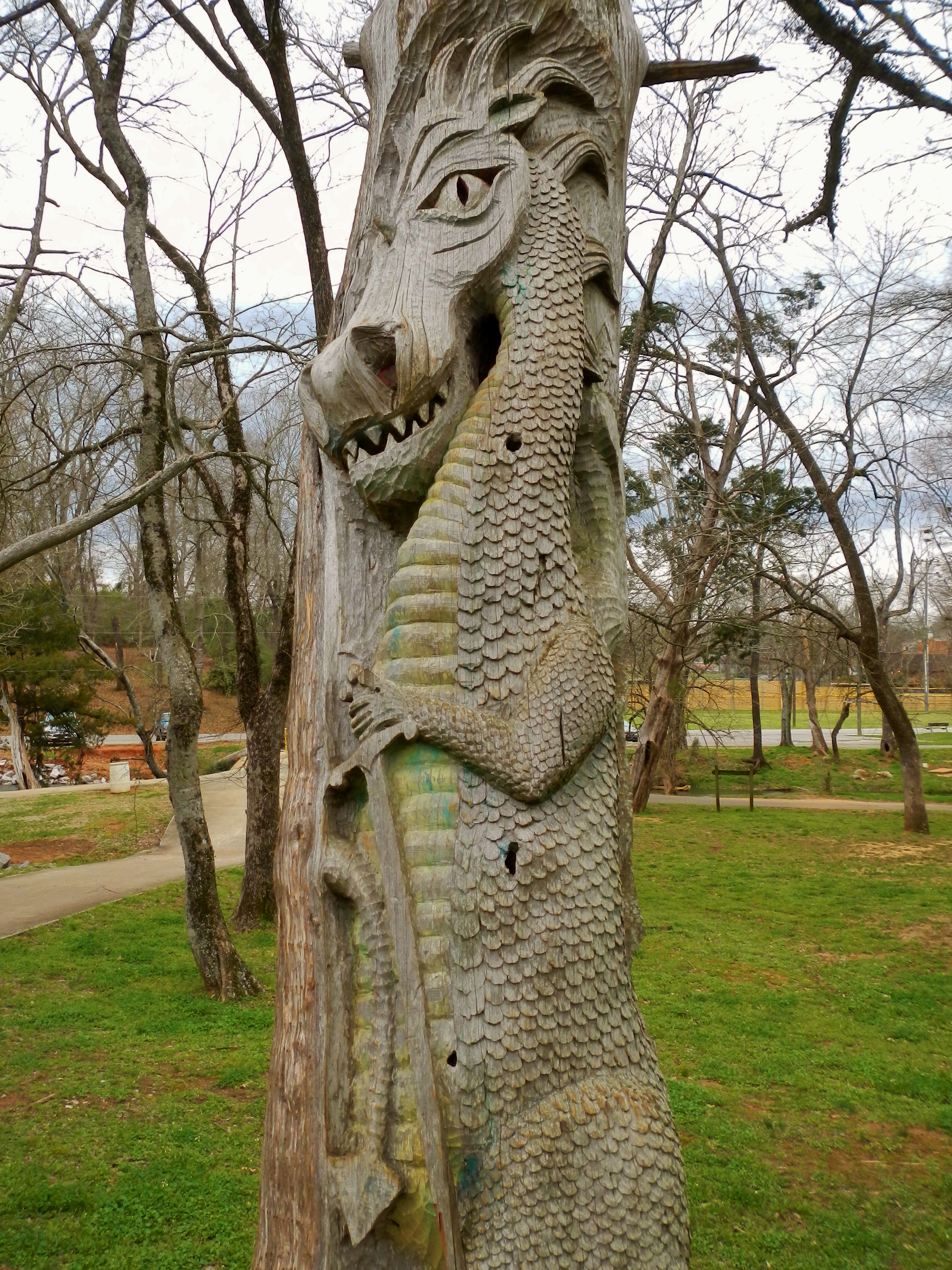 This is a photograph of a wood carving by Tim Tingle in Orr Park in Montevallo, Alabama.